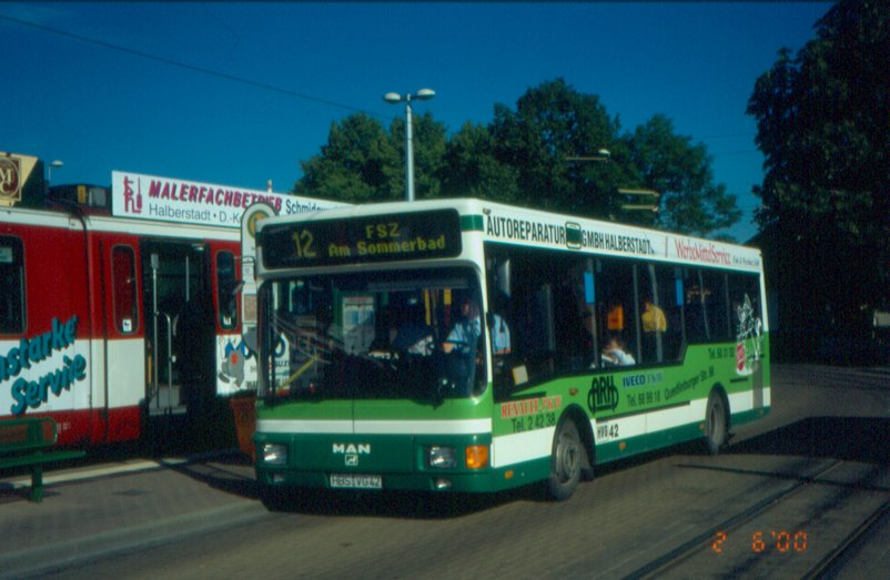 MAN NM192 bus (reg. HBS-VG 42, #42) in Halberstadt, Germany. Built 1995, Halberstädter Verkehrs-GmbH (HVG) operator.